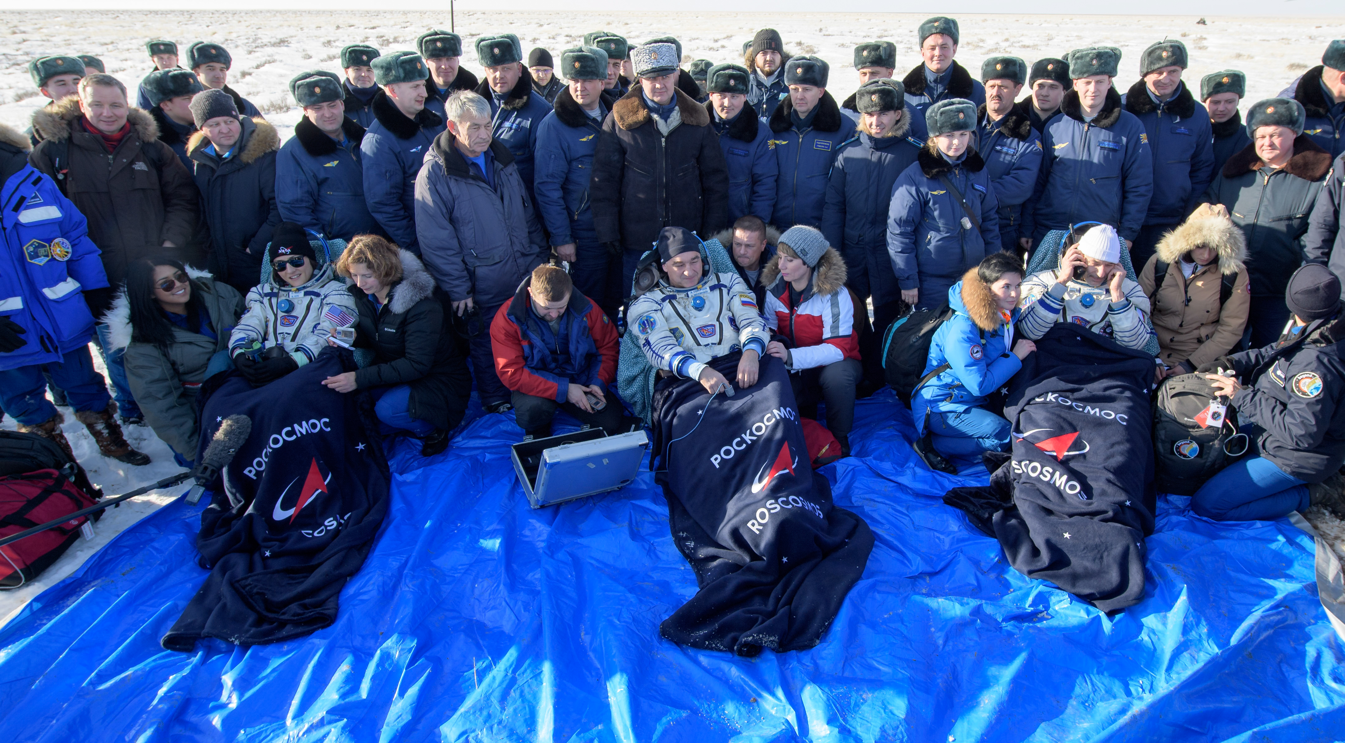 NASA astronaut Christina Koch, left, Roscosmos cosmonaut Alexander Skvortsov, center, and ESA astronaut Luca Parmitano sit in chairs outside the Soyuz MS-13 spacecraft after they landed in a remote area near the town of Zhezkazgan, Kazakhstan on Thursday, Feb. 6, 2020. Koch returned to Earth after logging 328 days in space --- the longest spaceflight in history by a woman --- as a member of Expeditions 59-60-61 on the International Space Station. Skvortsov and Parmitano returned after 201 days in space where they served as Expedition 60-61 crew members onboard the station.